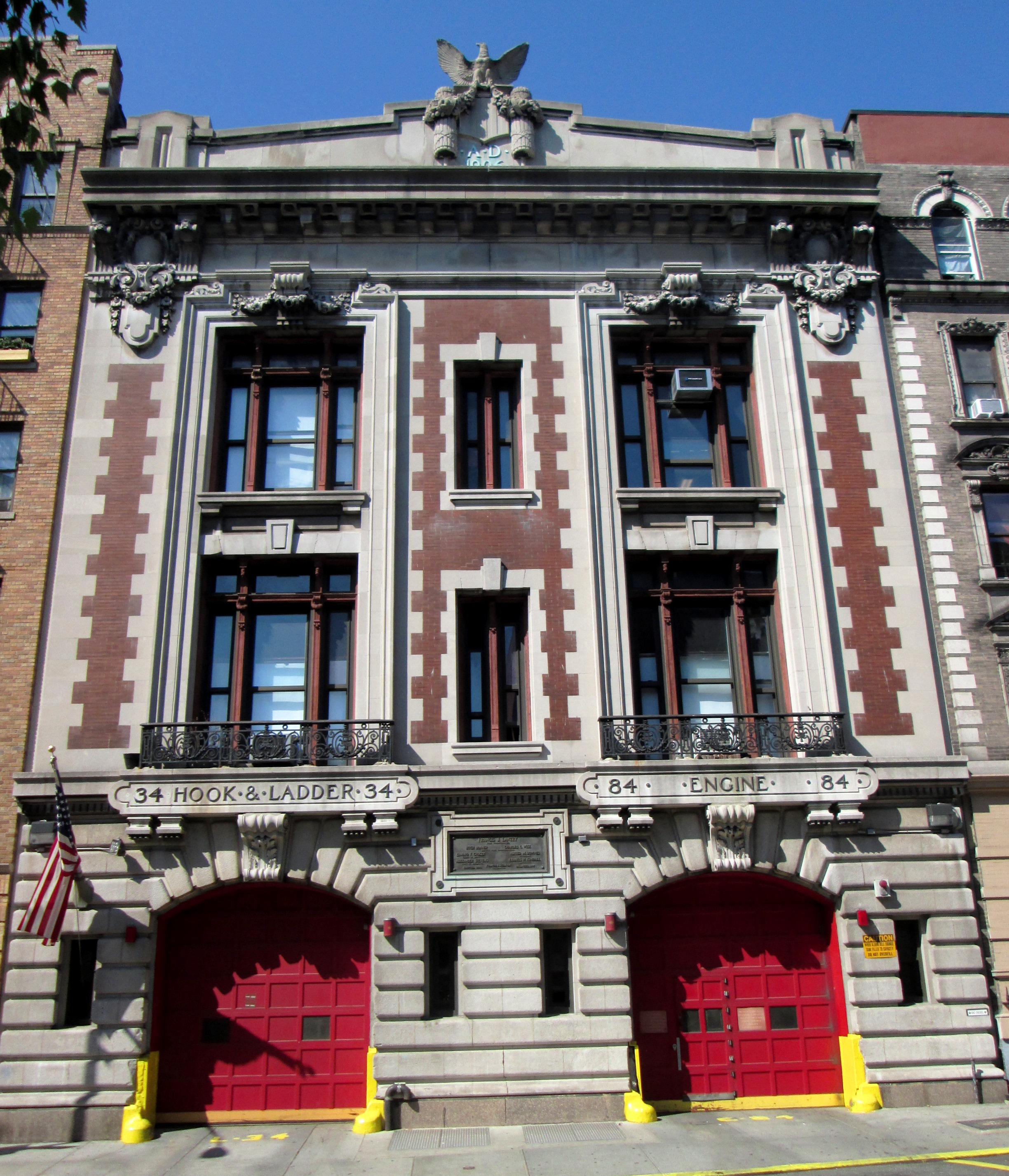 The firehouse for Engine Company 84 and Hook & Ladder Company 34, located at 513-515 West 161st Street between Broadway and Amsterdam Avenue in the Washington Heights neighborhood of Manhattan, New York City, was built in 1906-07 and was designed by Francis H. Kimball in the Beaux-Arts style. (Source: Designation Report)